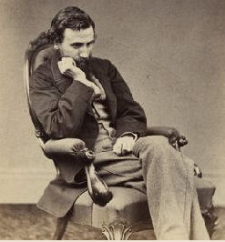 Photograph of Alfred William Hunt (1830-1896)